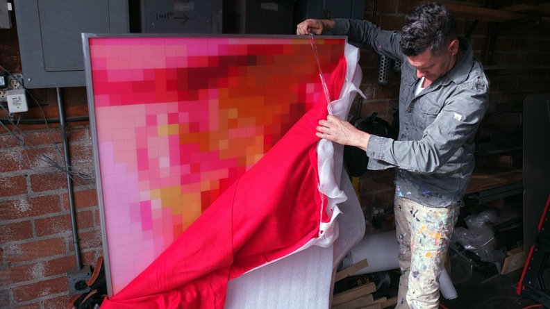 This is a photo of James Georgopoulos with one of his works to be used on his wiki: James Georgopoulos